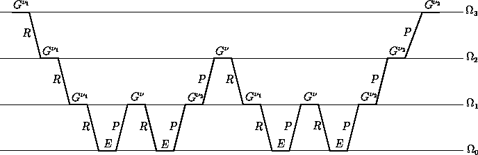 Illustration of a W-Multigrid cycle